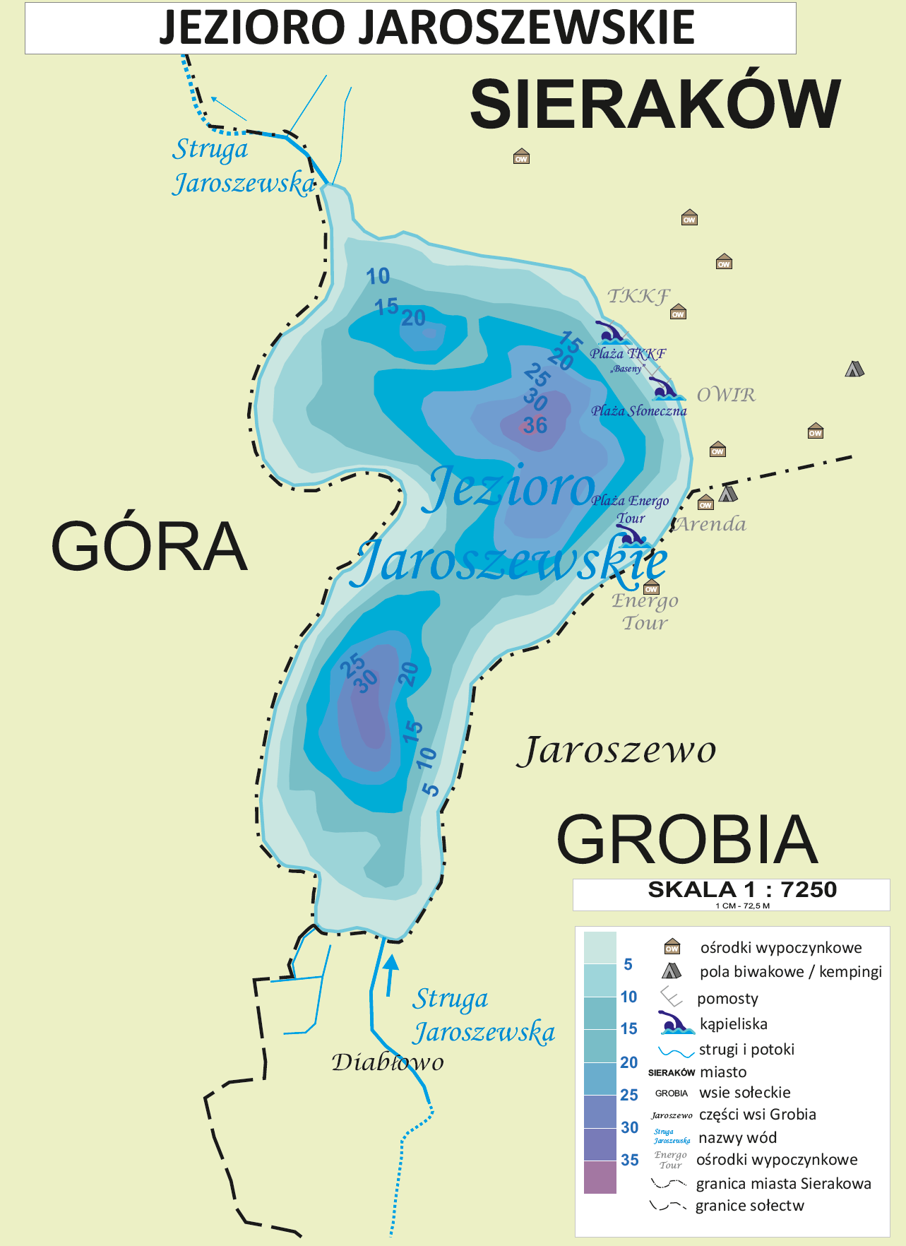 Jaroszewskie Lake